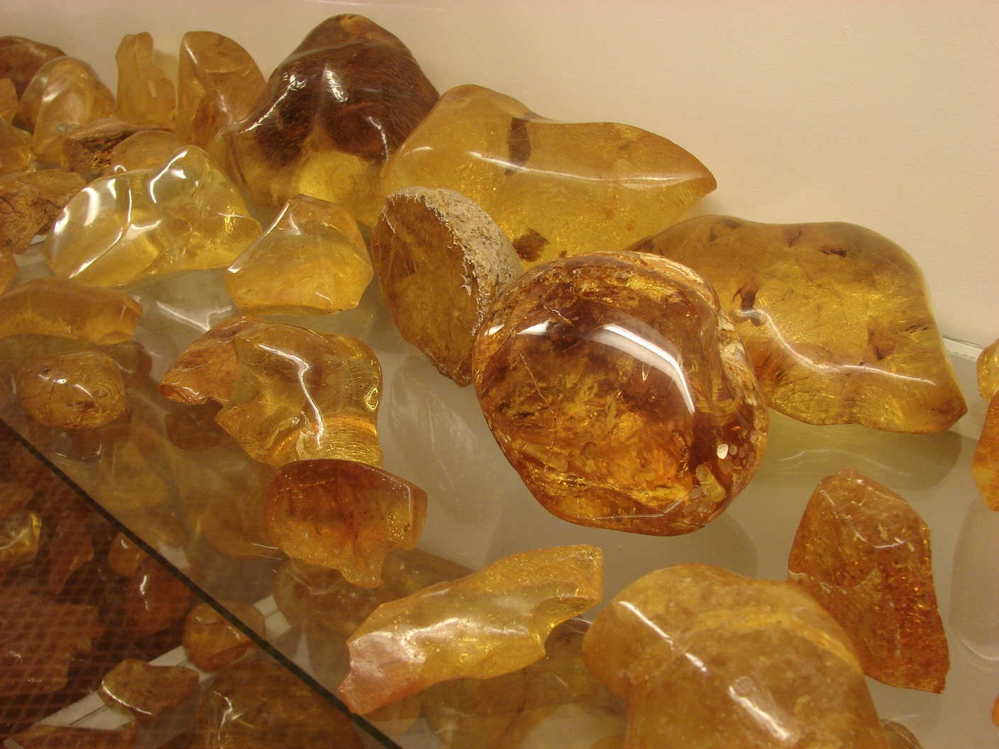 The Kauri Museum, New Zealand